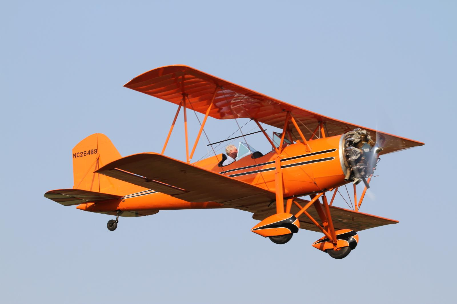 1941 Meyers OTW C/N 42